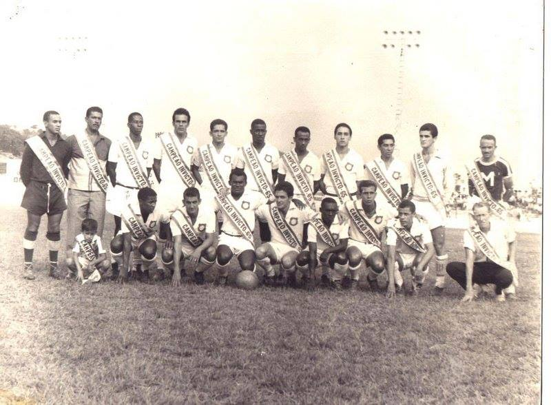 Garrincha no FEC